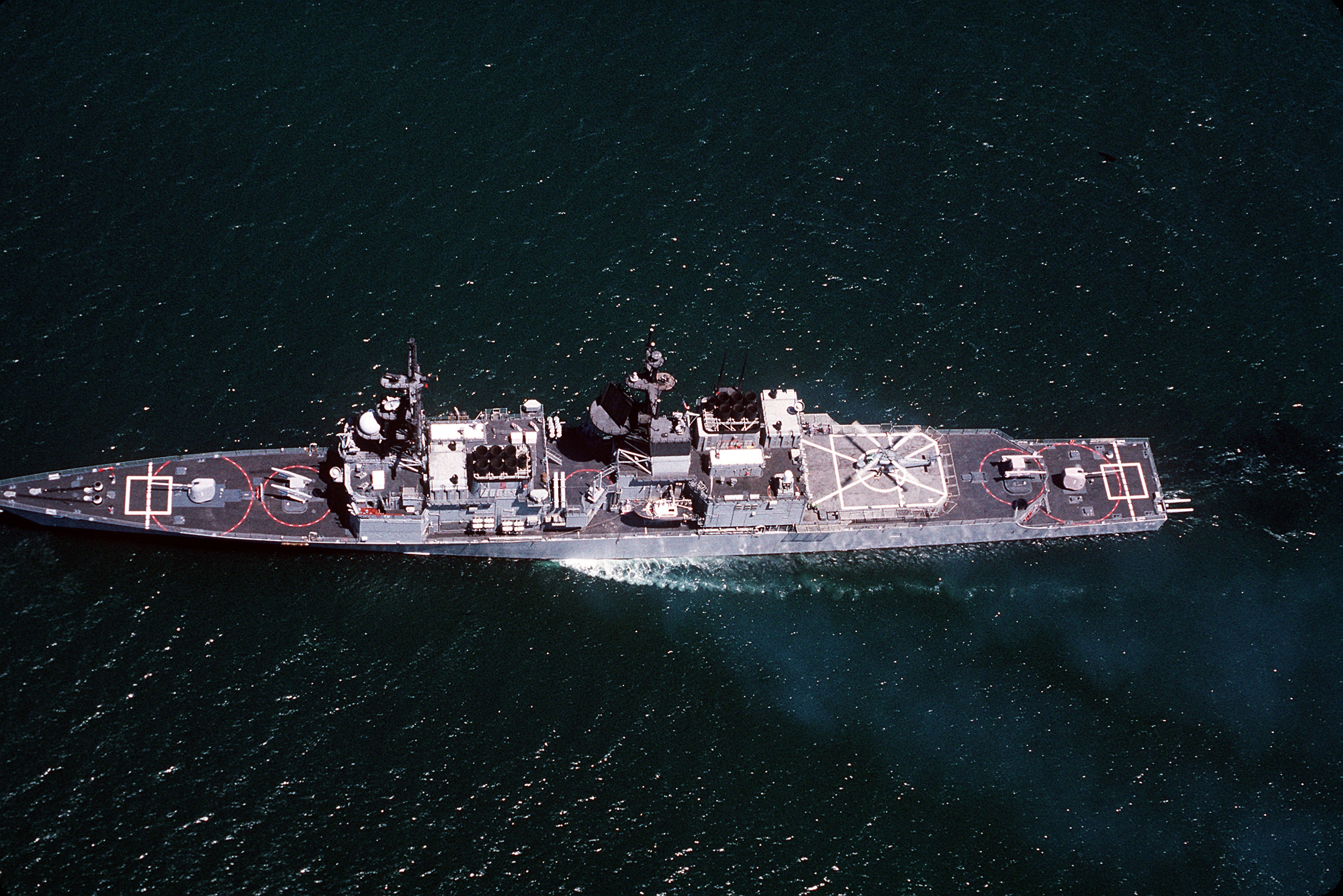 The U.S. Navy guided missile destroyer USS Chandler (DDG-996) underway off the coast of California near San Diego. Note the Kaman SH-2F Seasprite helicopter on the flight deck.